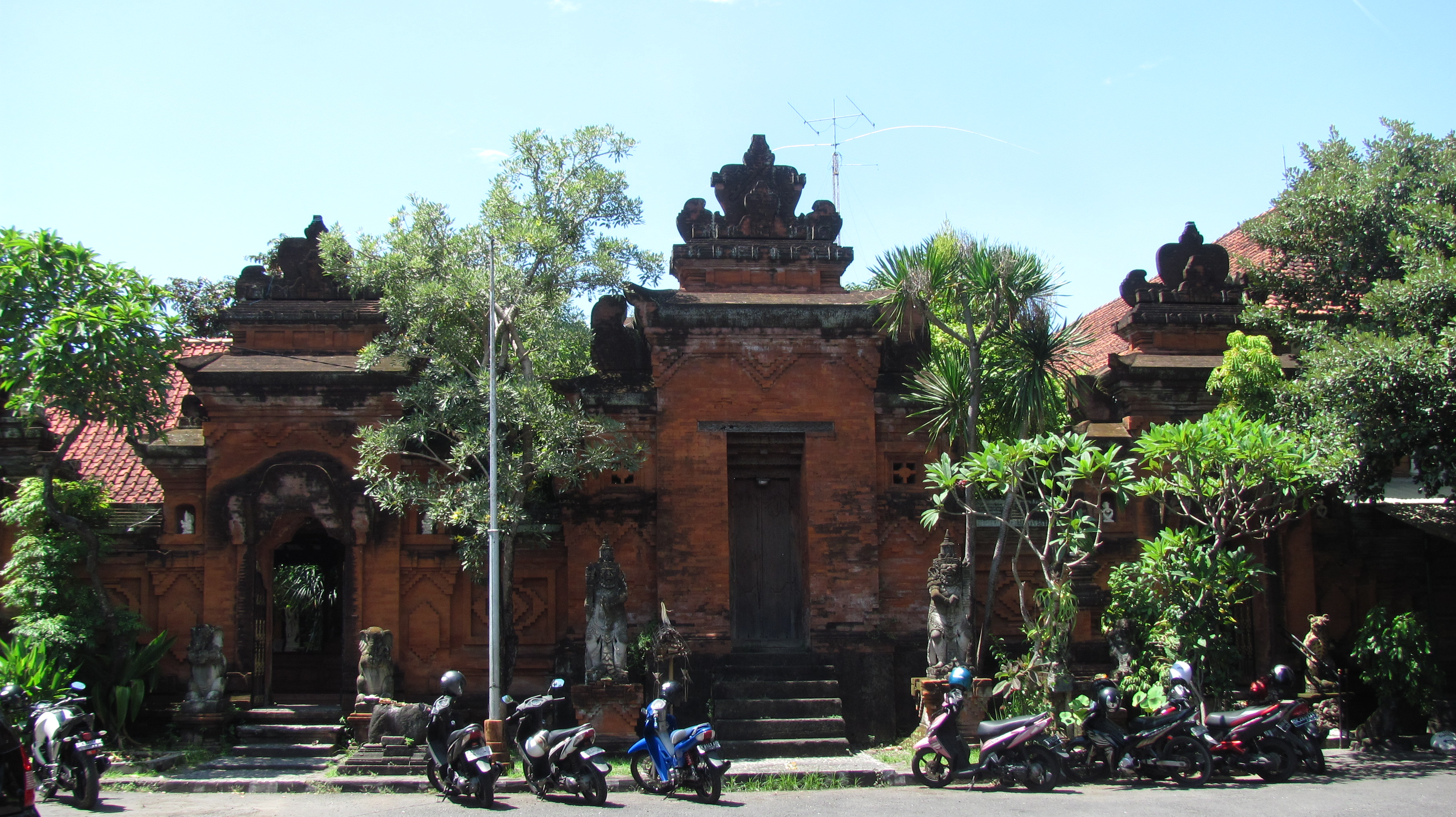 "Puri Pemecutan" Palace, Denpasar, Balli, Indonesia